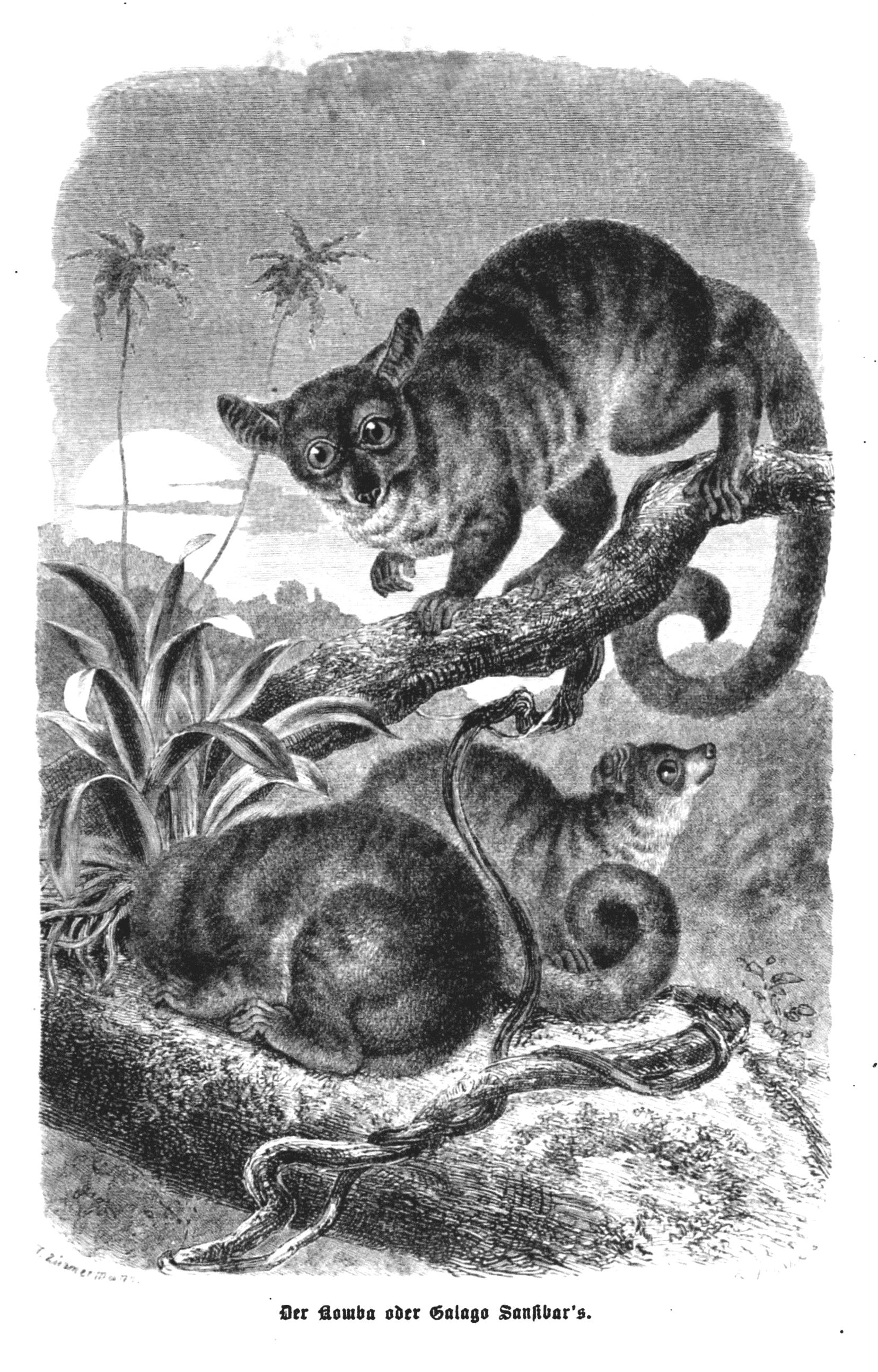 Galagos from Reisen in Ost-Afrika in den Jahren 1859 bis 1865, Carl Claus von der Decken, edited by Otto Kersten